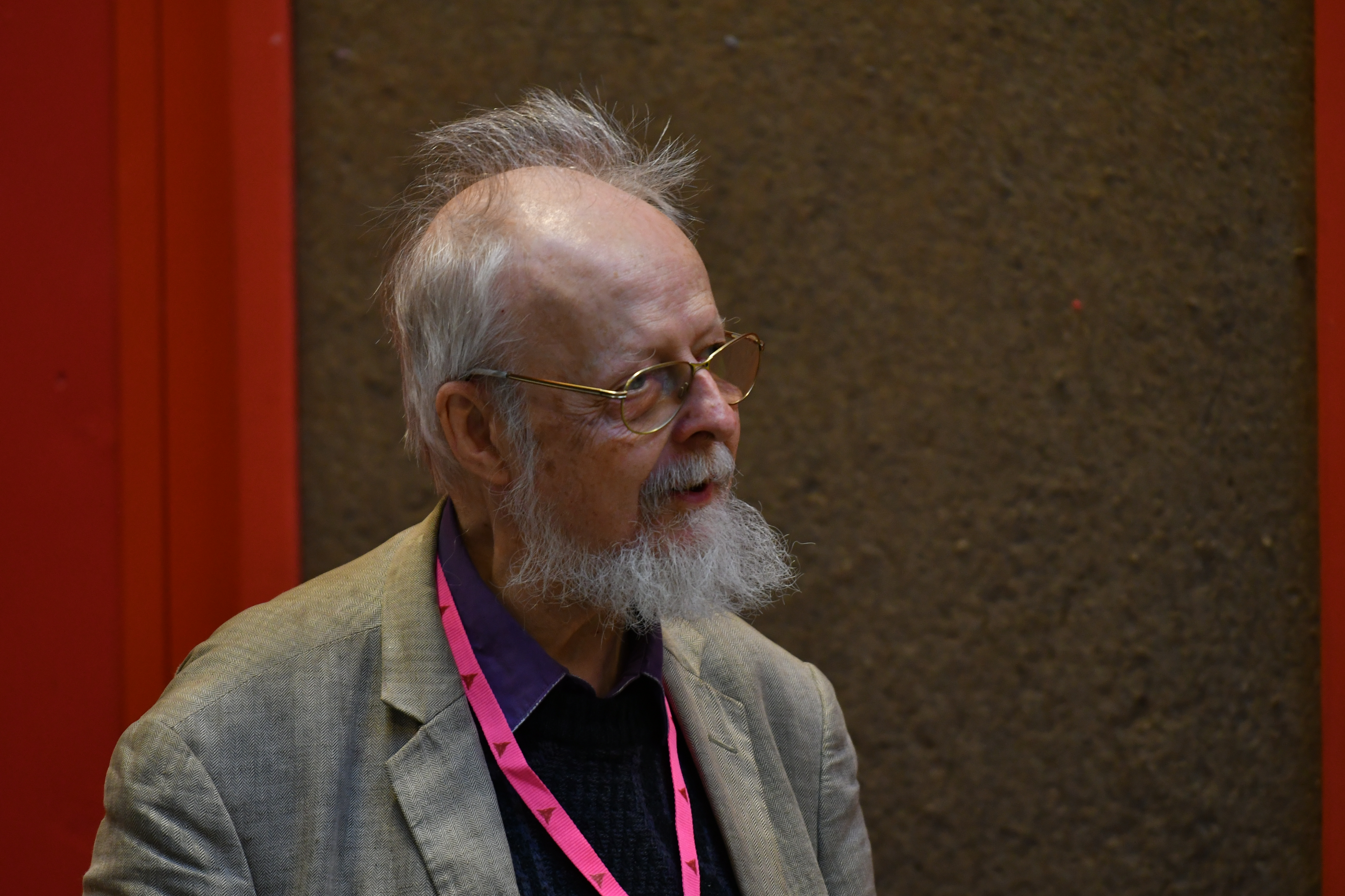 Gunnar Gällmo på Fantastika 2018, Swecon 2018.